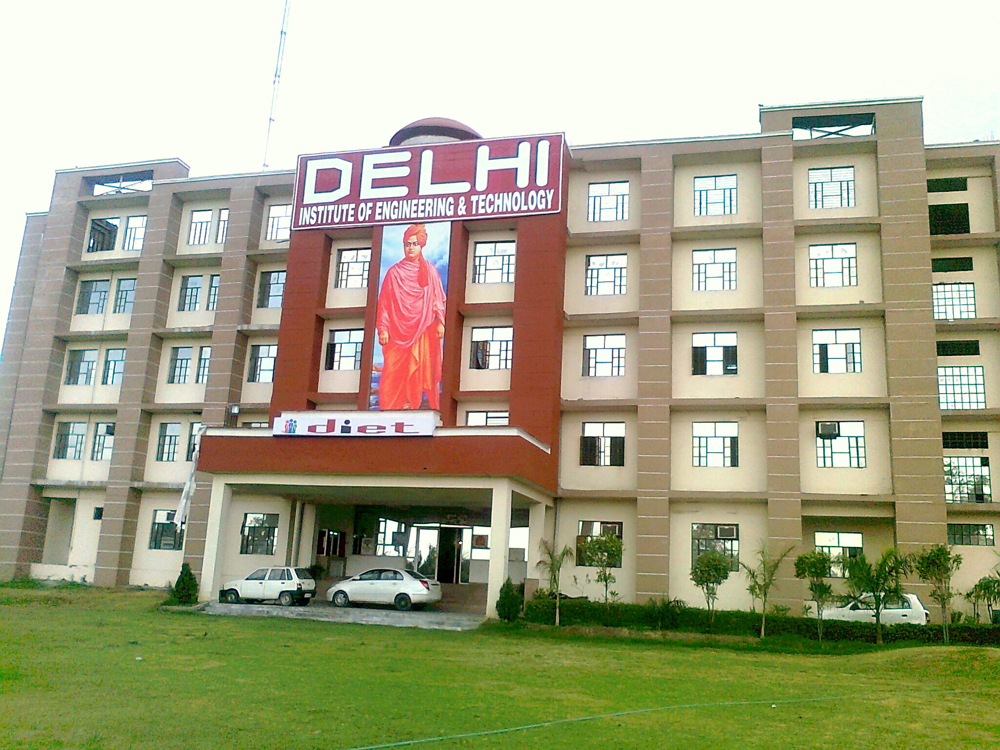 DIET Front View2